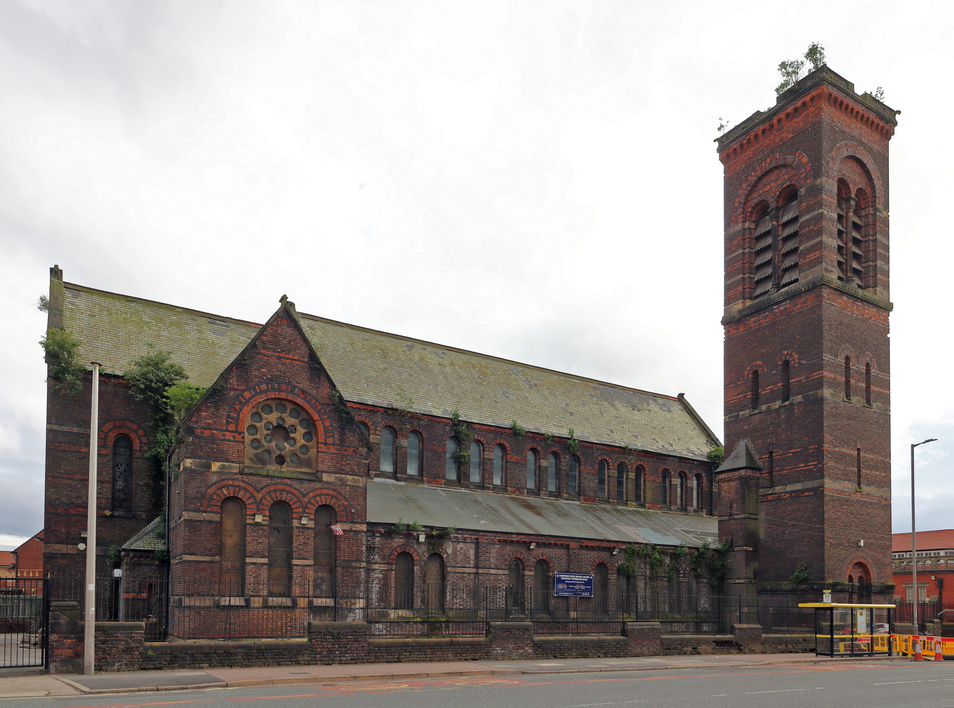 Grade II listed Italianate church in Kensington, Liverpool. View from the northeast across Kensington.